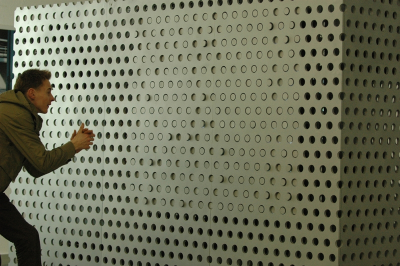 Photo of the artwork "4D Pixel" by Daan Roosegaarde